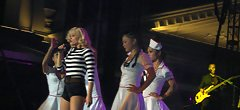 Gwen Stefani with her Harajuku Girls performing "Serious" in Anaheim, California, United States on the Harajuku Lovers Tour